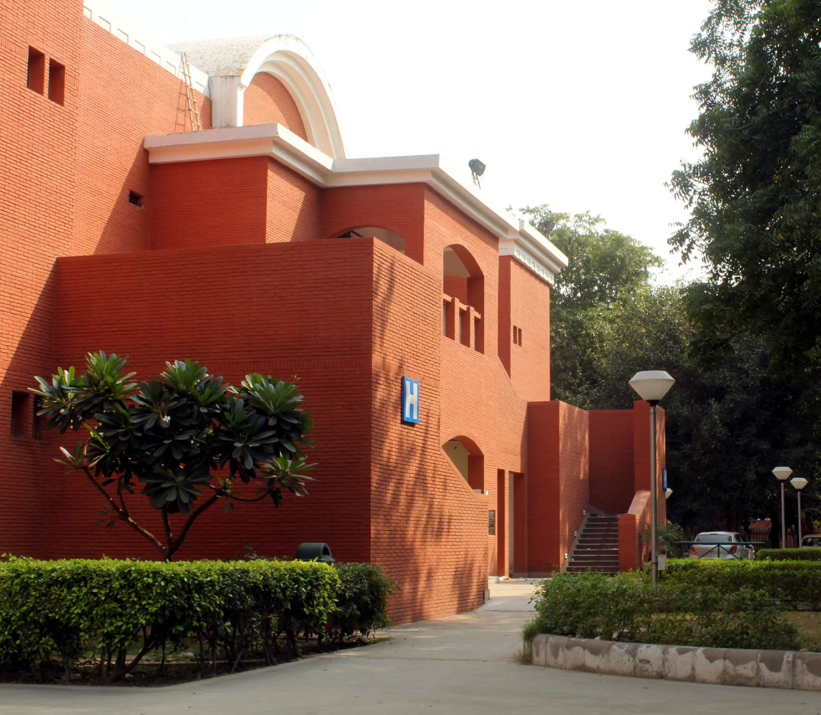 New Building and an auditorium of College of Art, New Delhi, designed by Satish Gujral, Photo by Yogesh Gurera